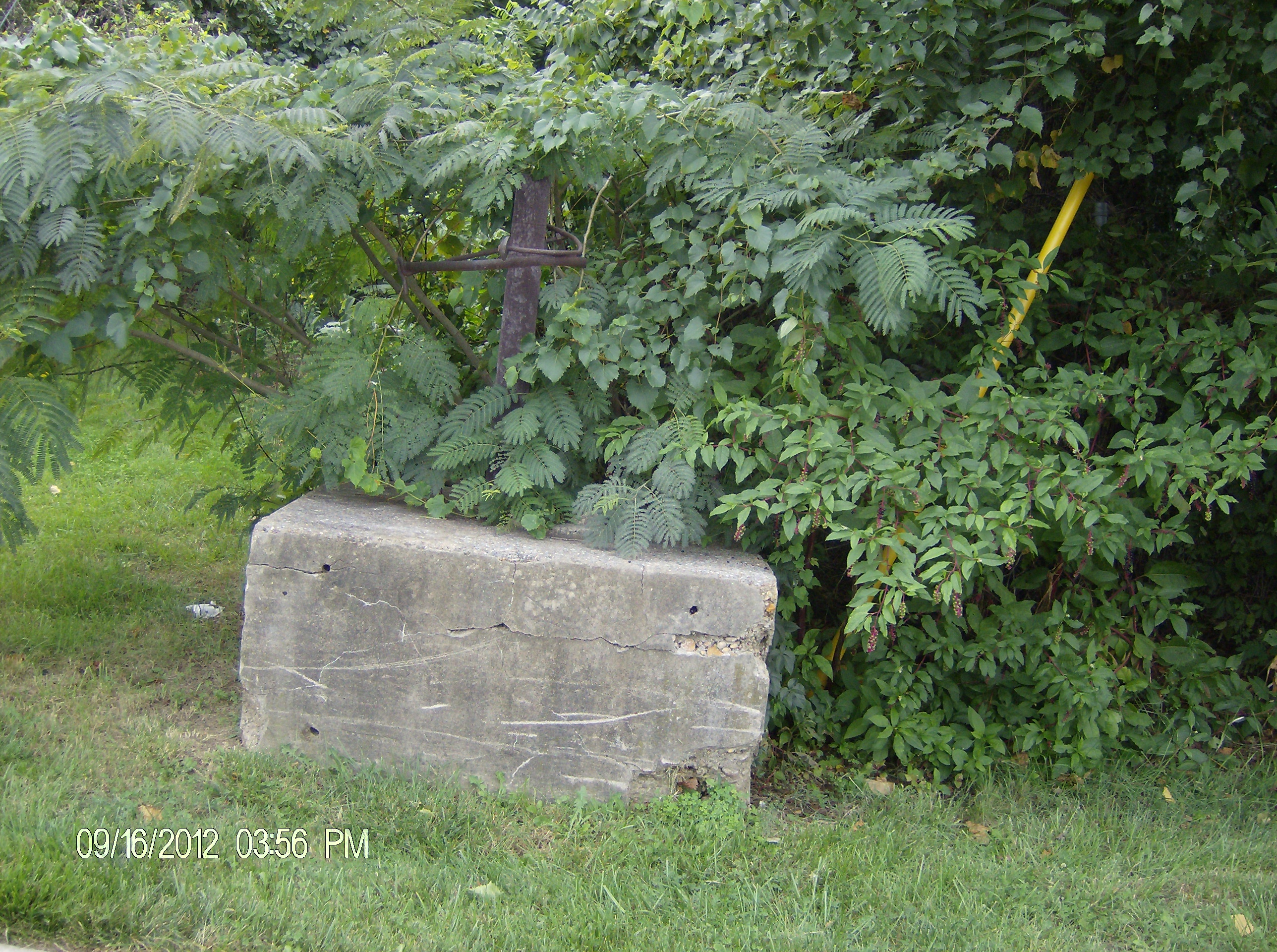 Remaining Concrete Block and Rebar from the original plaque location for the Thee Mile Oak